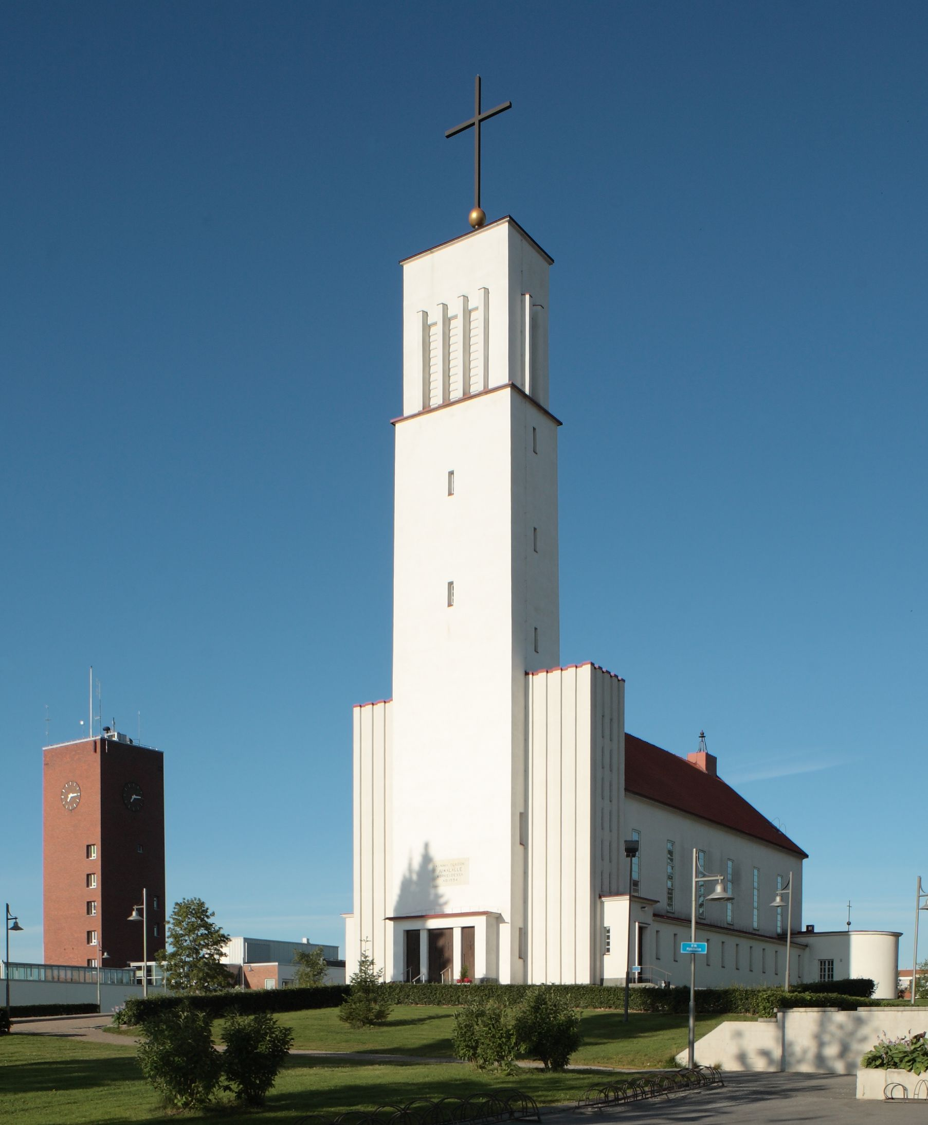 The Holy Cross Church (Iisalmi new church) in Iisalmi, Finland. Modern movement Architect: Eino Pitkänen 1933